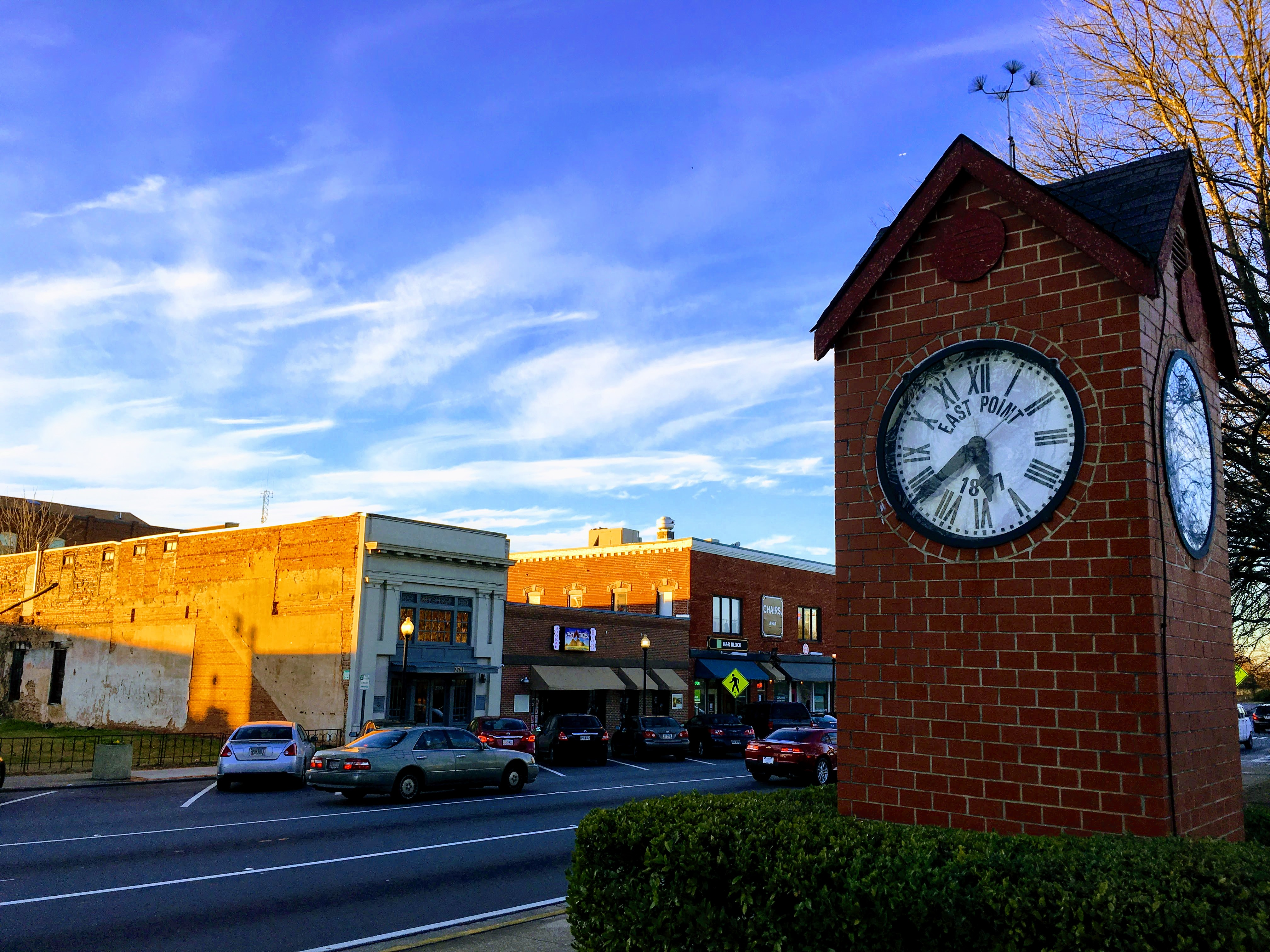 Clocktower in Downtown East Point Georgia